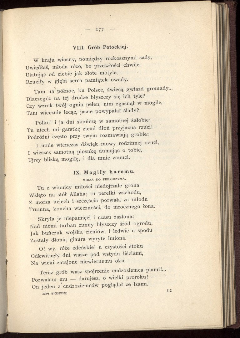 Poems by Adam Mickiewicz. V. 1. - Kraków; 1899; Adam Mickiewicz (1798-1855)